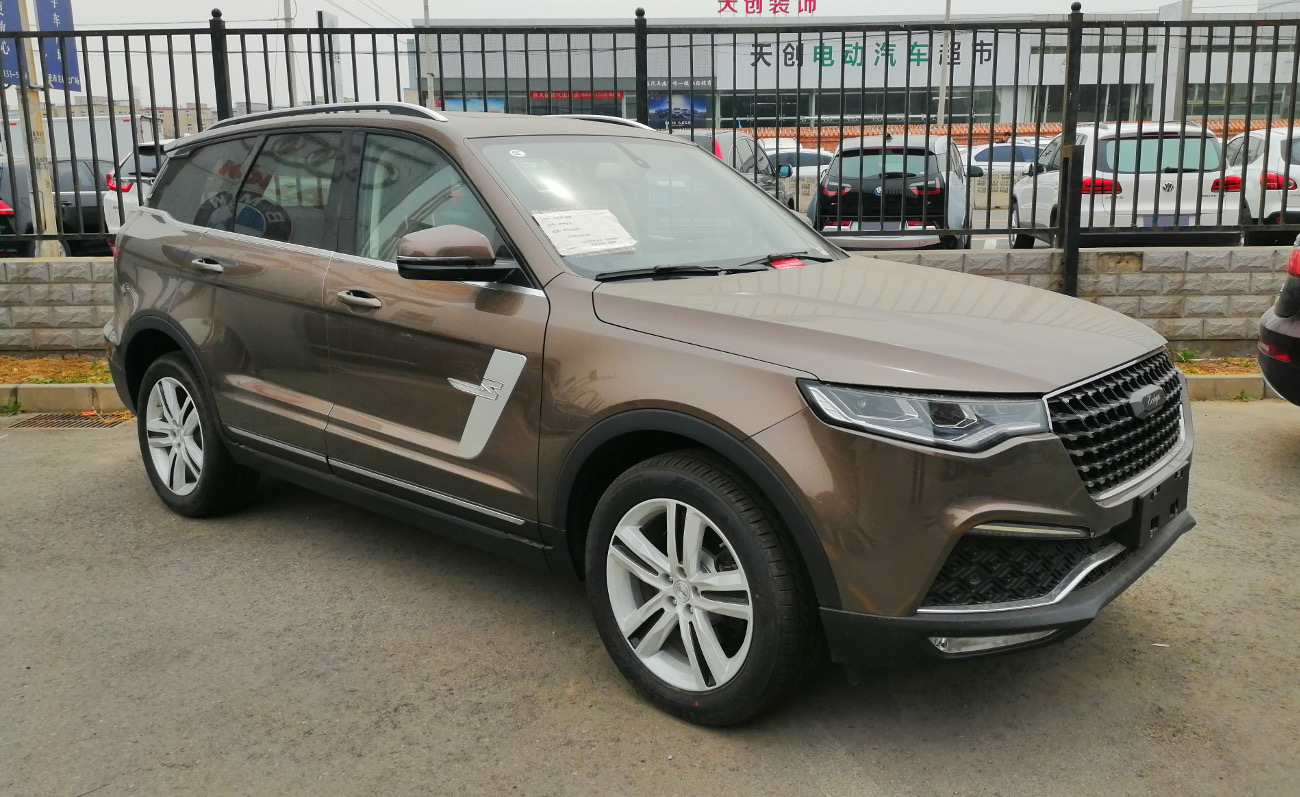 Zotye T800 photographed in Beijing, China.